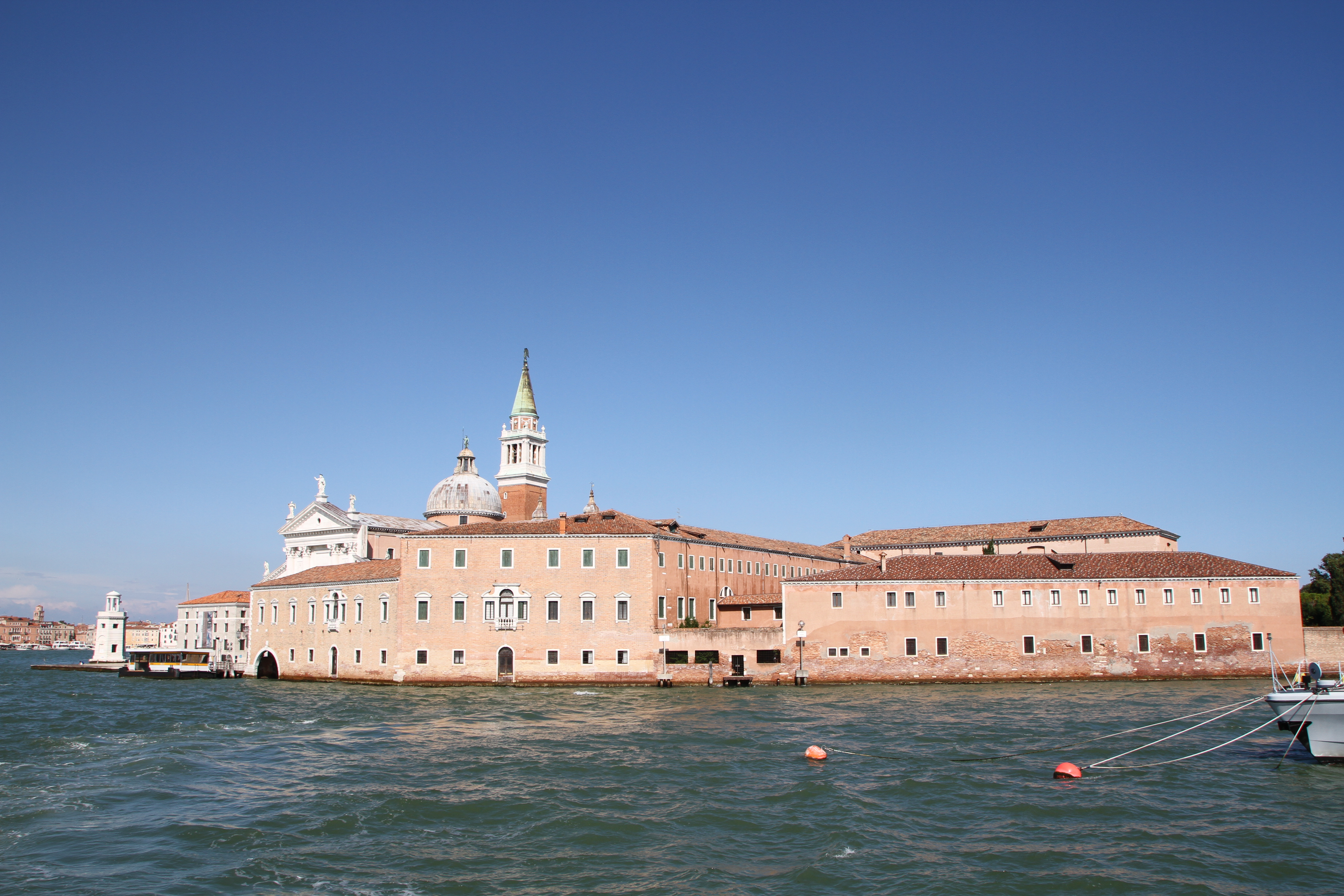 Image from the island (and church) called San Giorgio Maggiore, With the buildings belonging to the fine arts Foundation of "Fondazione Giorgio Cini". Venice, Italy